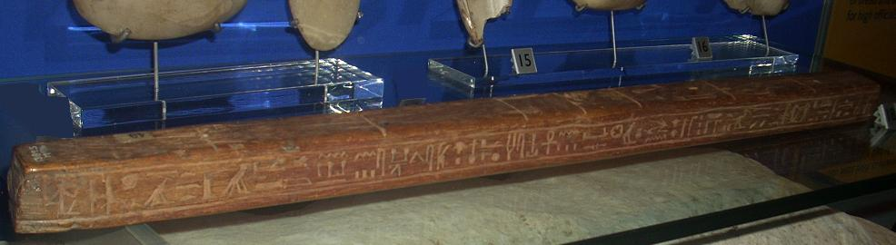 Liverpool World Museum 2009.